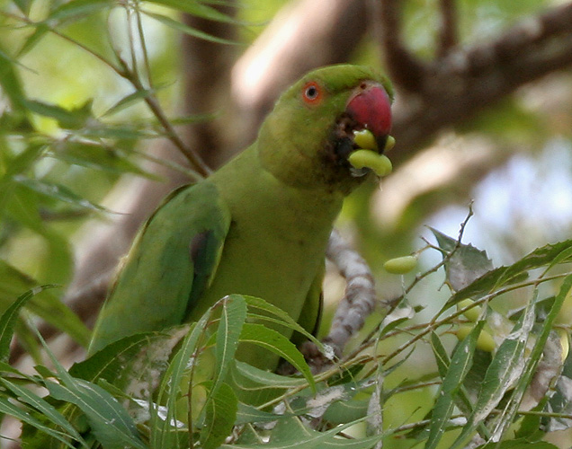 Psittacula krameri feeding on Azadirachta indica Neem fruits in Amaravati, Andhra Pradesh, India.